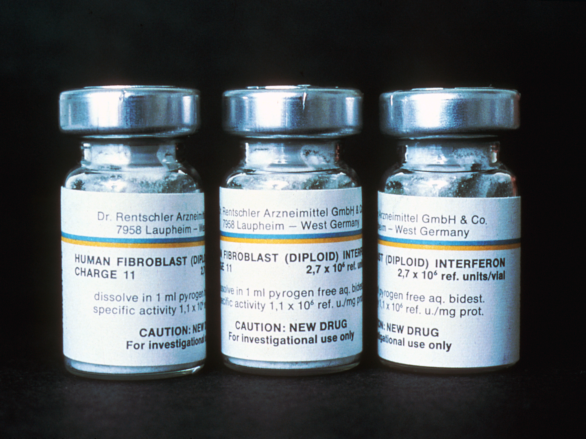 Title Interferon Bottles Description Seen are three bottles of interferon on a black background. Topics/Categories Treatment, Chemotherapy Type Color, Photo Source National Cancer Institute